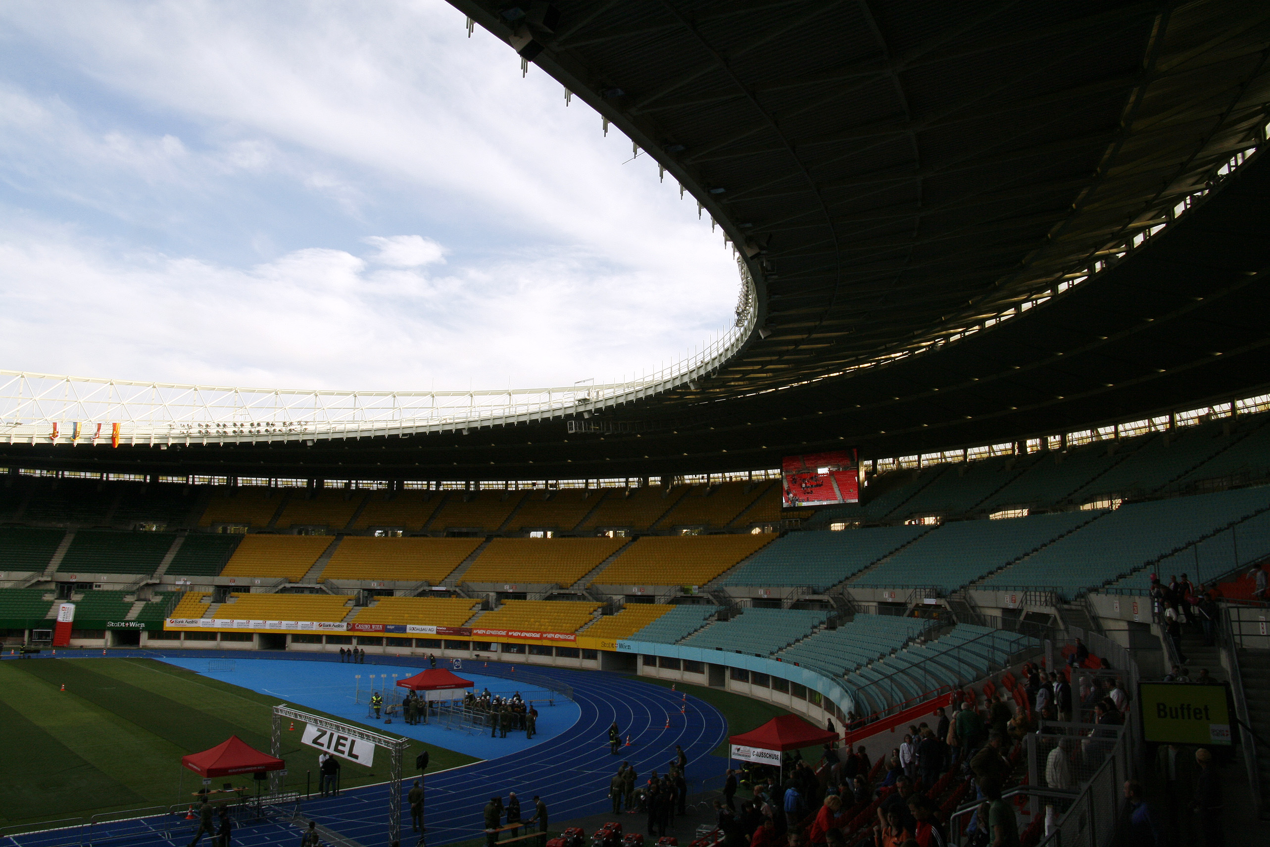 The Ernst-Happel-Stadion in Vienna.